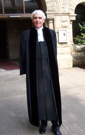 A pastor wearing traditional Presbyterian liturgical clothing, a Geneva gown (pulpit robe) over a cassock with white preaching tabs.